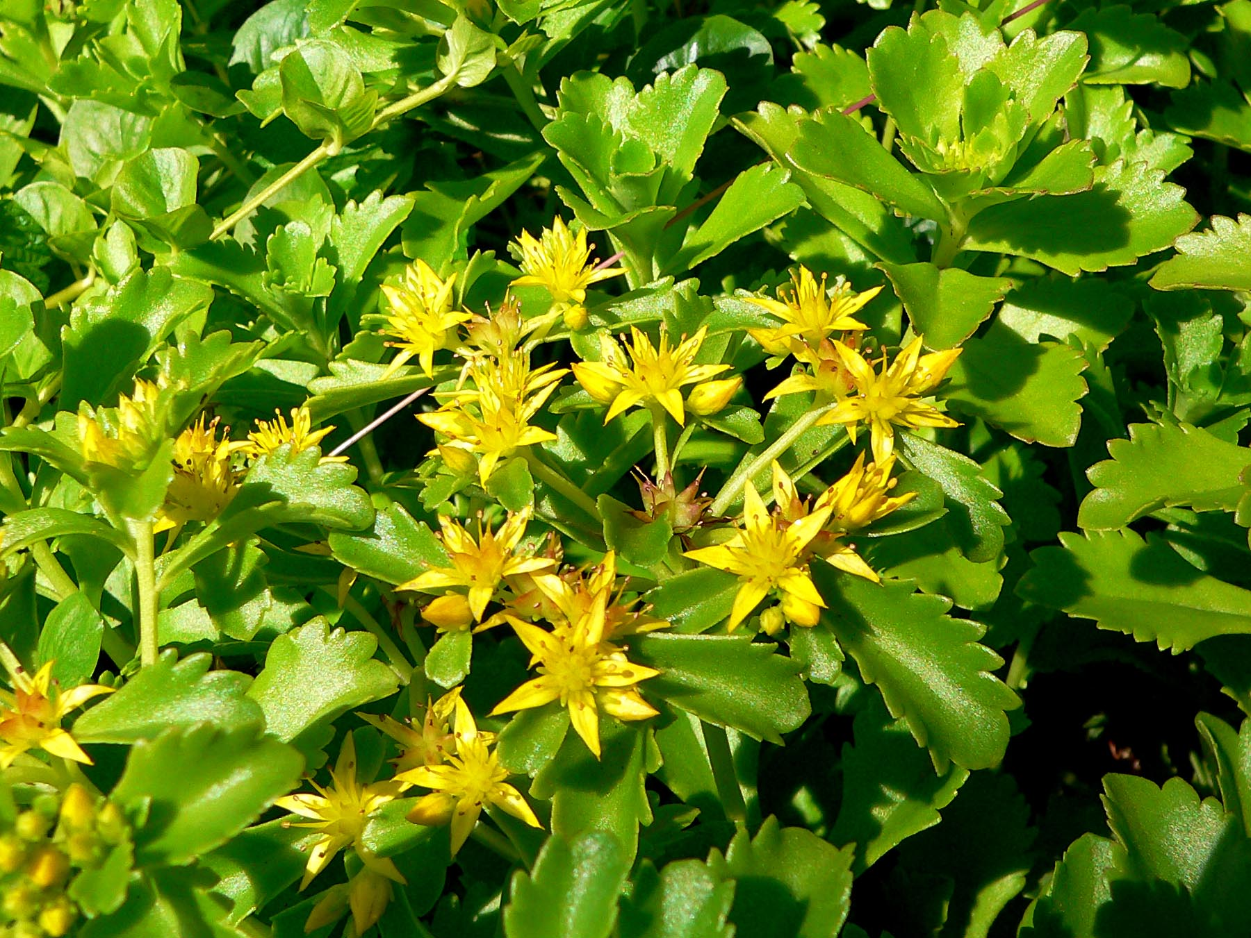 Photo of Sedum kamtschaticum at VanDusen Botanical Garden